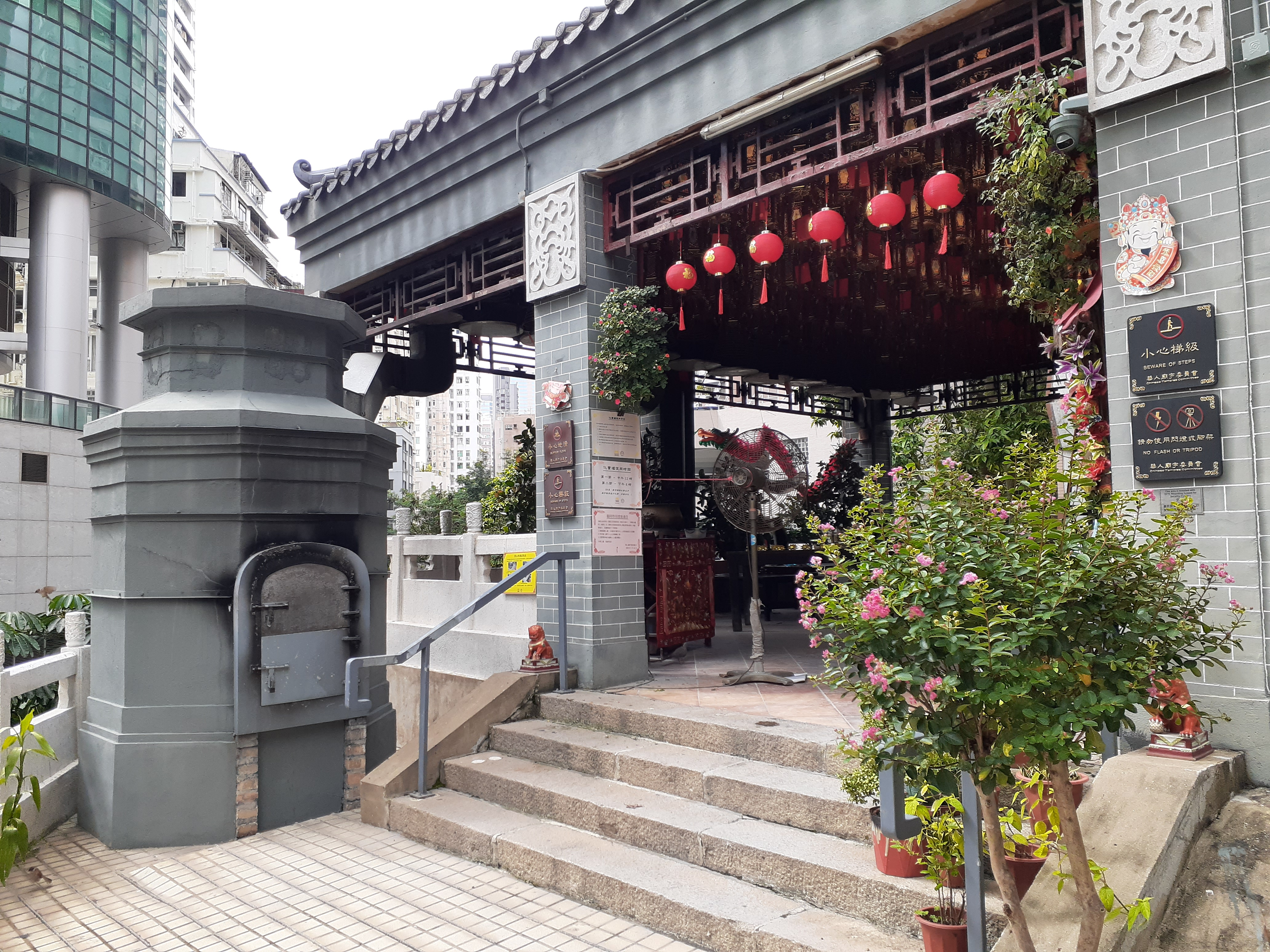 HK HV 跑馬地 Happy Valley 雲地利道 Ventis Road 北帝譚公廟 Tam Kung Temple in July 2020